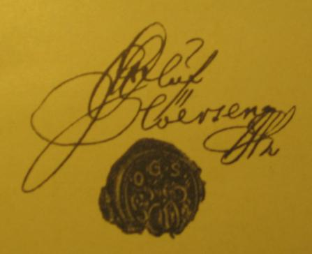 Signature and seal of Kjöbmand Ole (Oluf) Glöersen, 1722